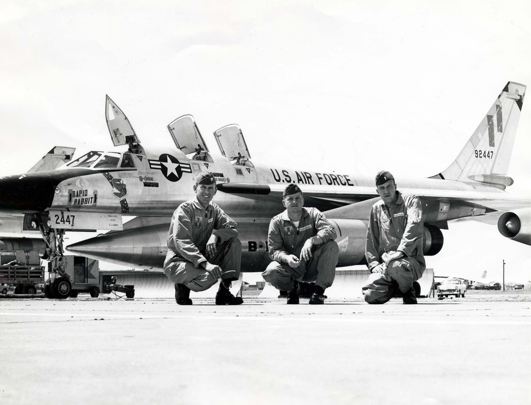 Convair B-58A Hustler crew with aircraft B-58A-10-CF, SN 59-2447 -Rapid Rabbit